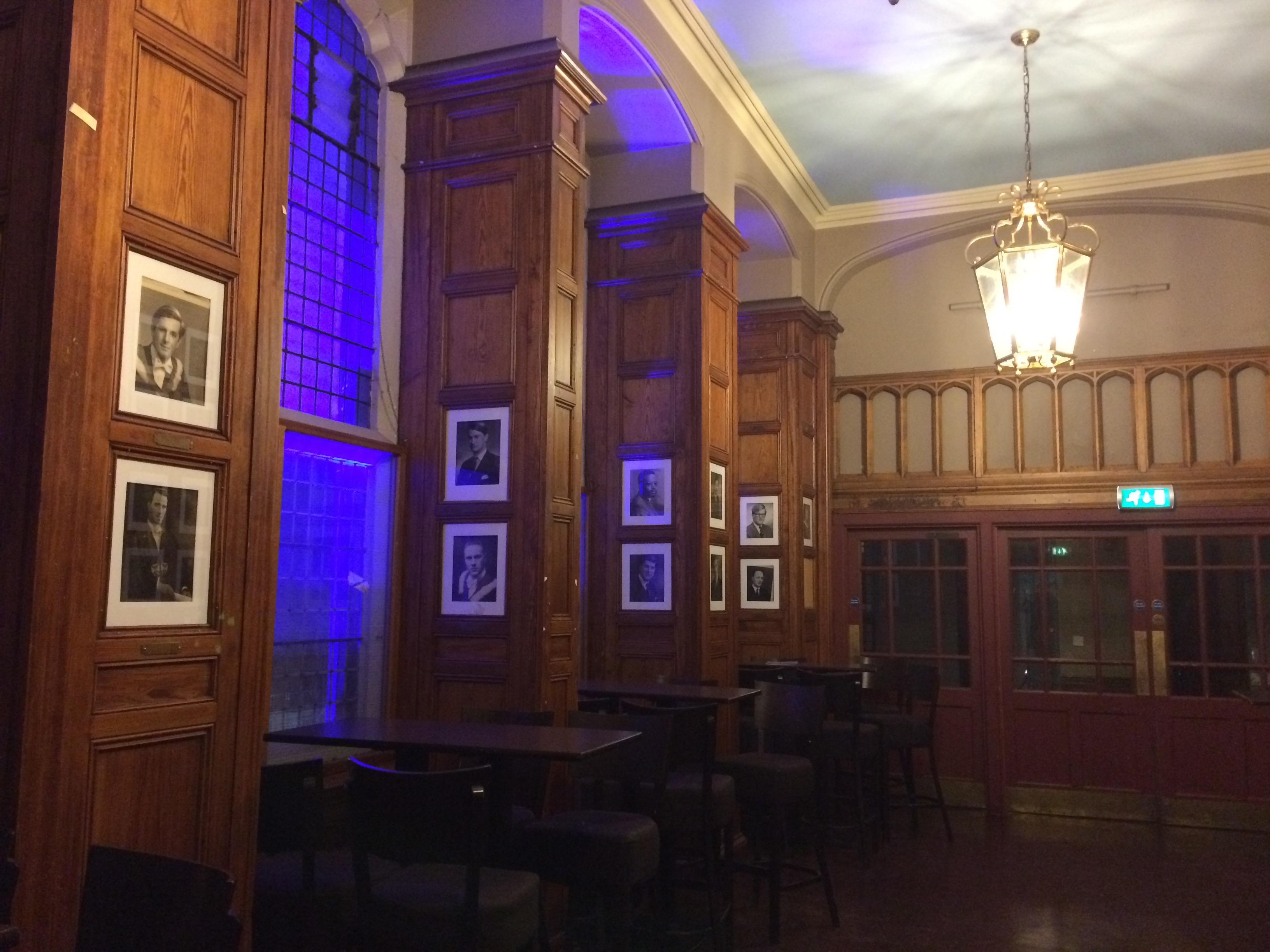 Edinburgh, Teviot Row House. Wikidata has entry Q735841 with data related to this item.